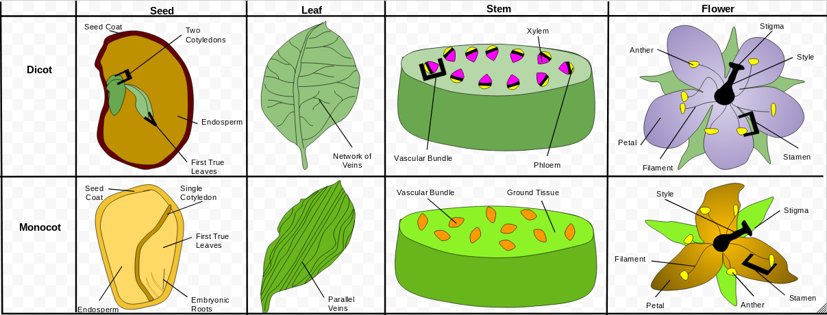 The table compares the seed, leaf, stem, and flower of Monocots and Dicots.